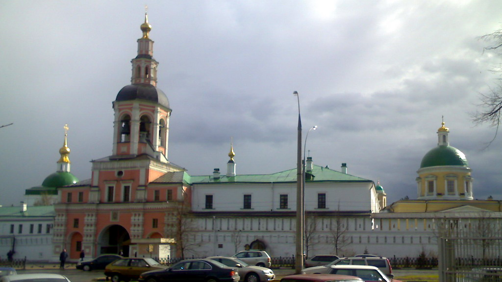 Danilov convent in Moscow. А view from Danolovskiy Val St.